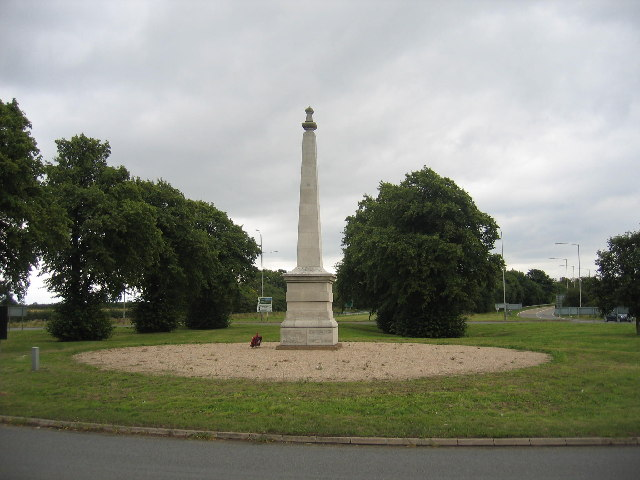 War Memorial at Stretton-on-Dunsmore. This memorial is sited on the roundabout at the crossing of the Fosse Way and the A45. A board nearby explains that "Money was raised by public subscription to commemorate KING GEORGE V's review of the troops and their brave action with the 29th Division. The memorial was designed by Bridgman and Sons of Lichfield and erected late in 1920 at a cost of £646. It has an overall height of 12.3 metres. The Memorial was unveiled by the Lord Lieutenant of Warwickshire, Lord Craven, and handed over to the Chairman of Warwickshire County Council, Lord Algernon Percy, on Tuesday 24th May, 1921 before a crowd estimated to be over 7,000"